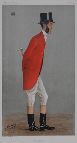 Caricature of Viscount Portman. Caption read "An old Master".